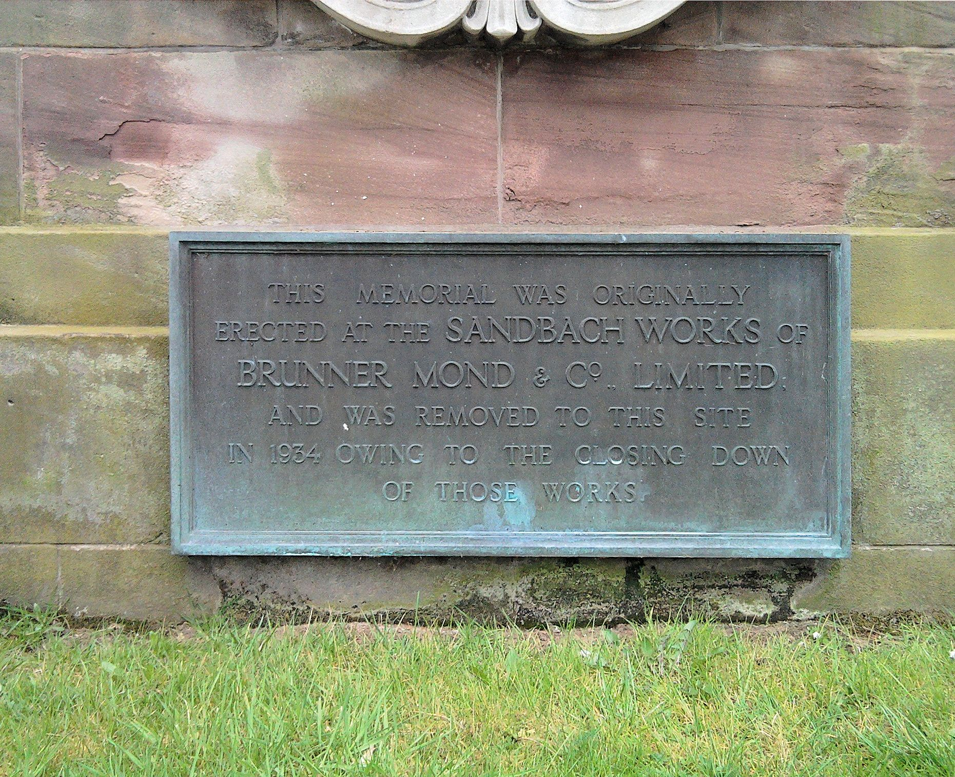 World War I Memorial plaque. See also: List of names It reads: This memorial was originally erected at the Sandbach Works of Brunner Mond & Co. Limited and was removed to this site in 1934 owing to the closing down of those works.